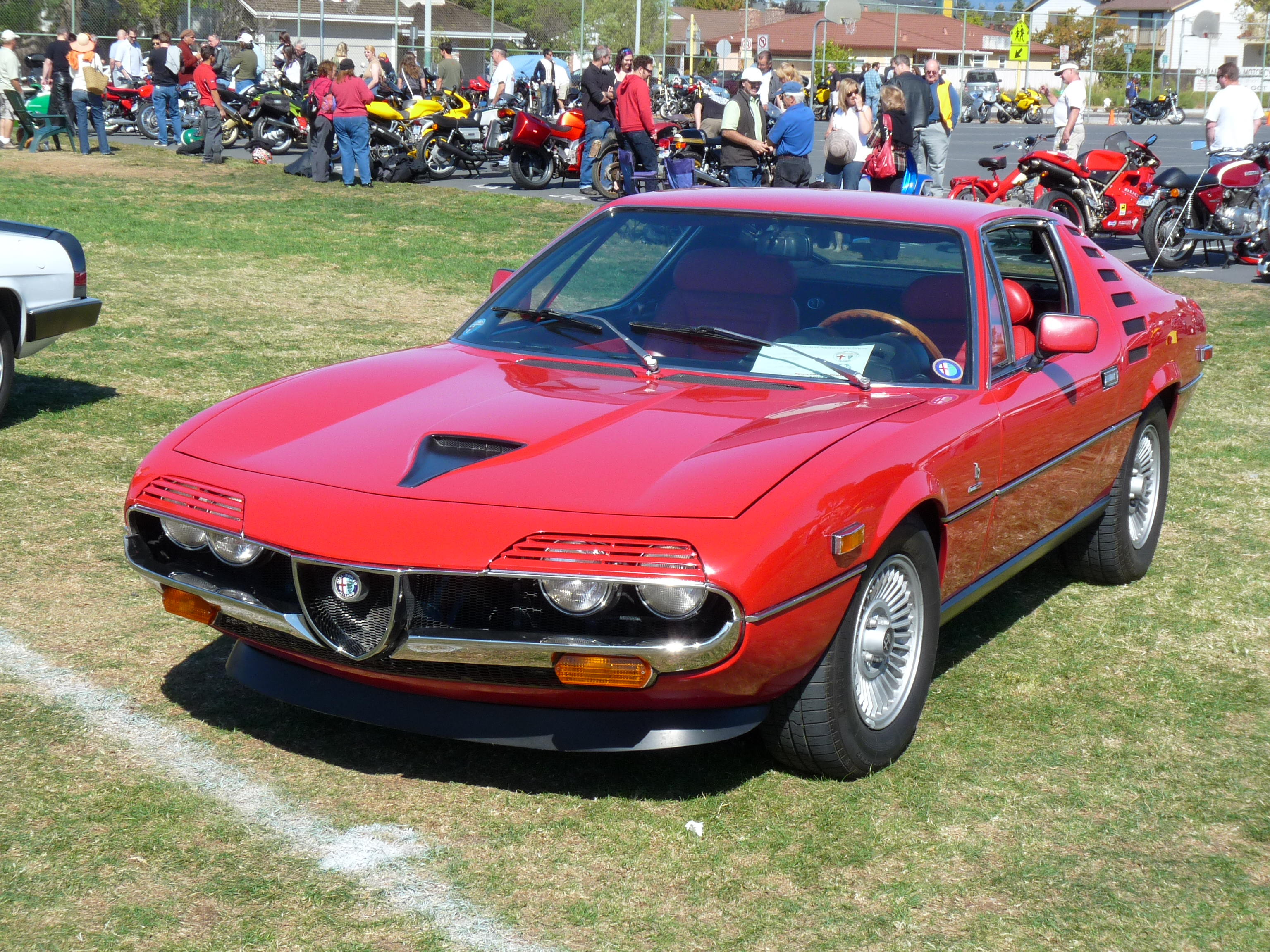 Alameda All Italian Car & Motorcycle Show 2008